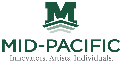 Logo for Mid-Pacific Institute (Honolulu, HI)